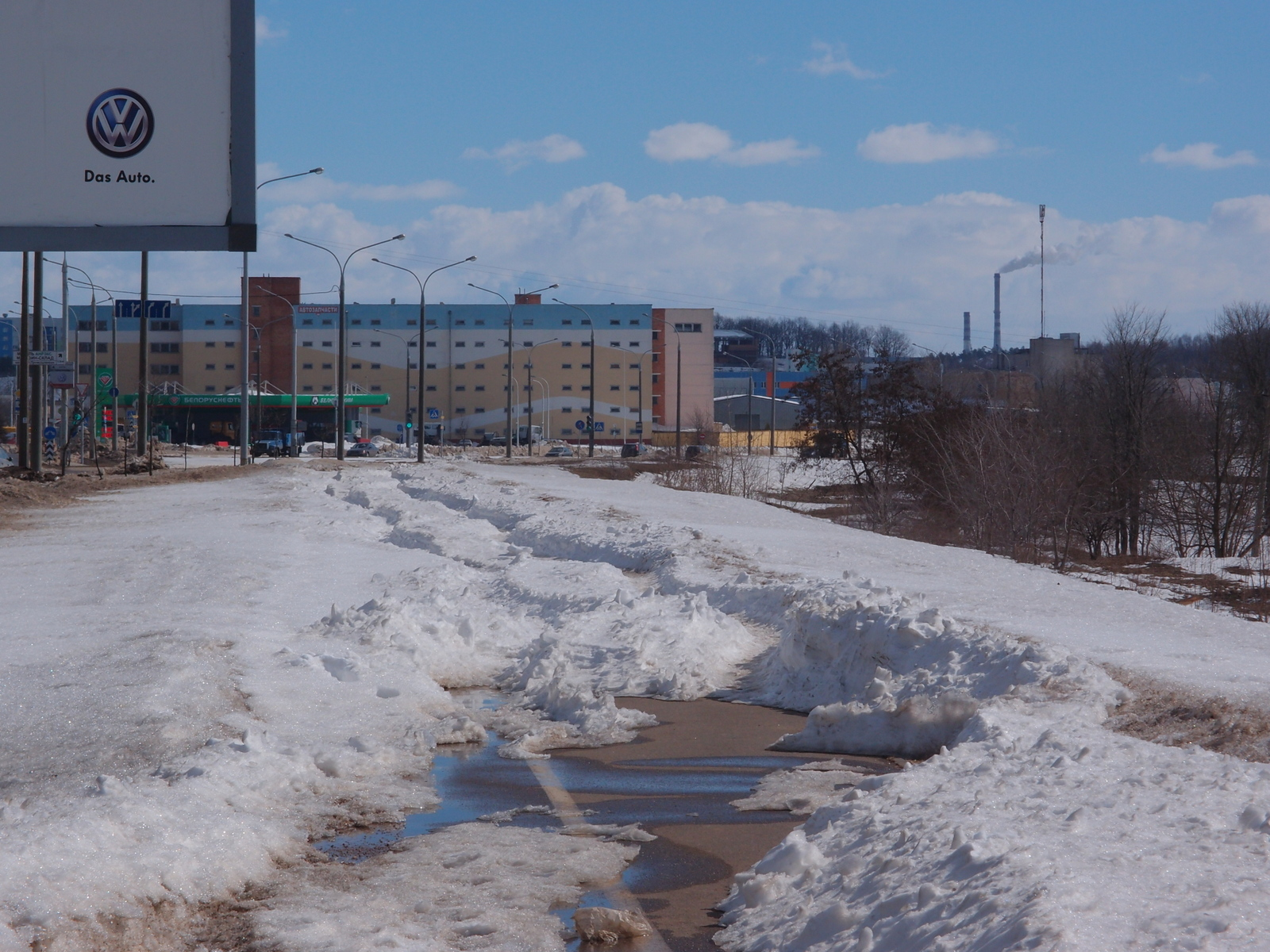 vulica Mašynabudaŭnikoŭ